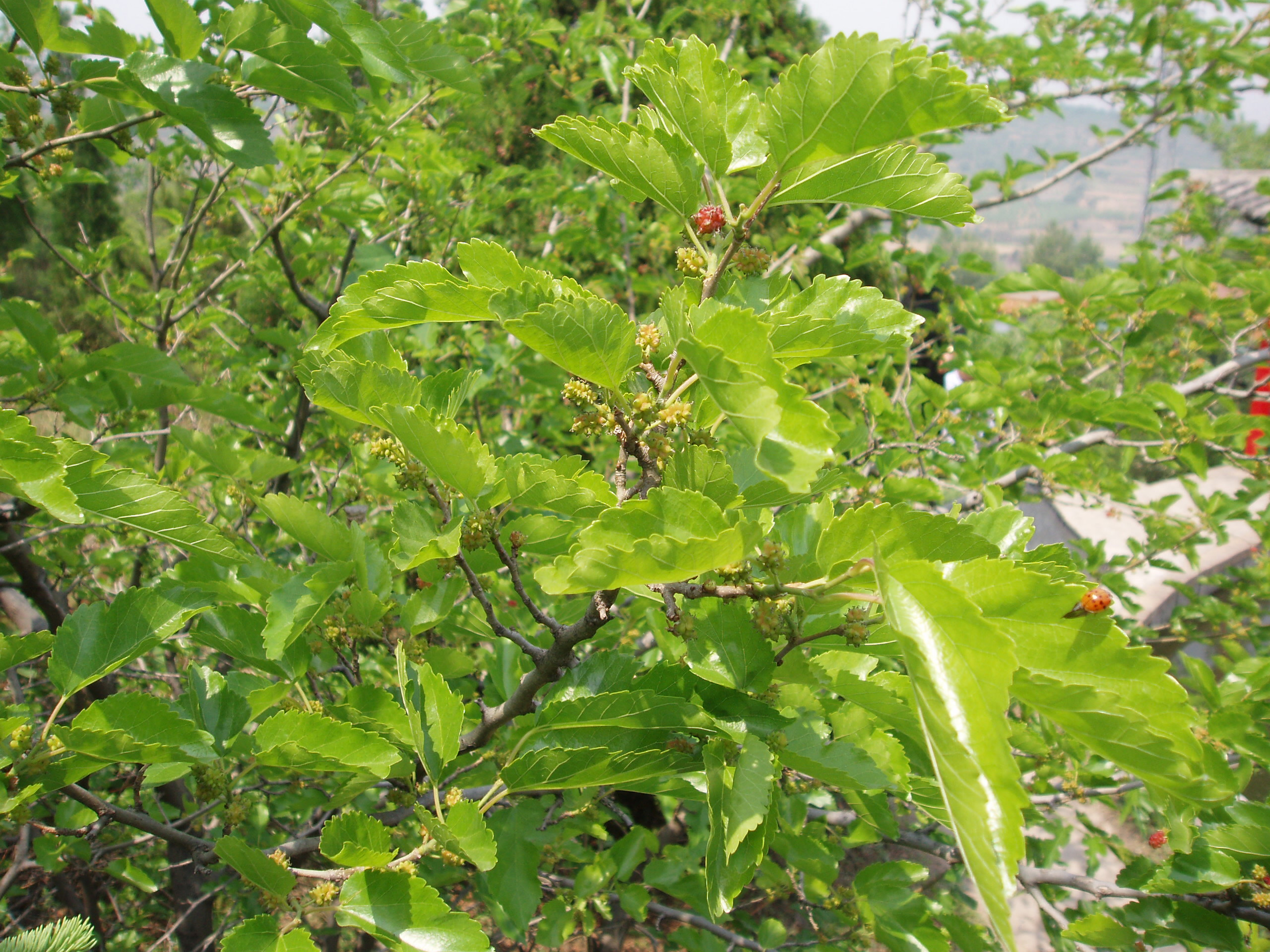 Mulberry trees